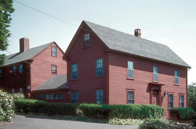 1662- CIRCA 1720; ONE OF THE OLDEST HOUSES IN MAINE